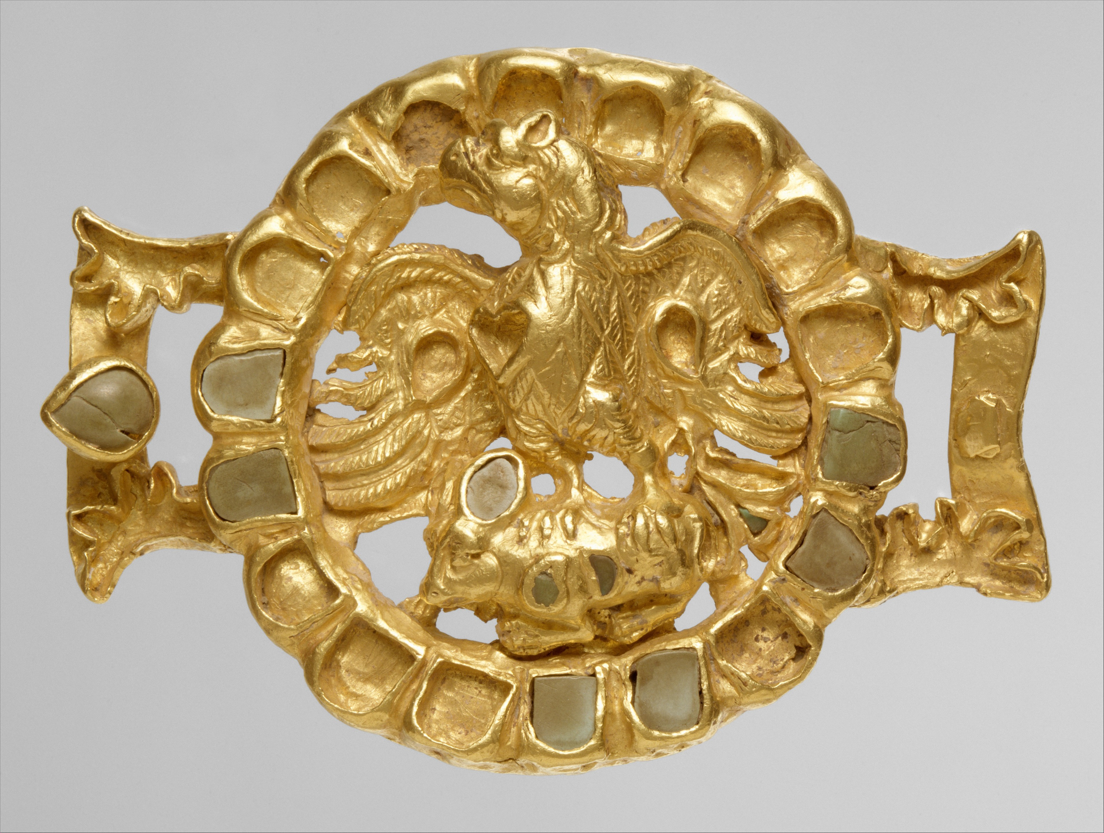 Parthian; Clasp; Metalwork-Ornaments